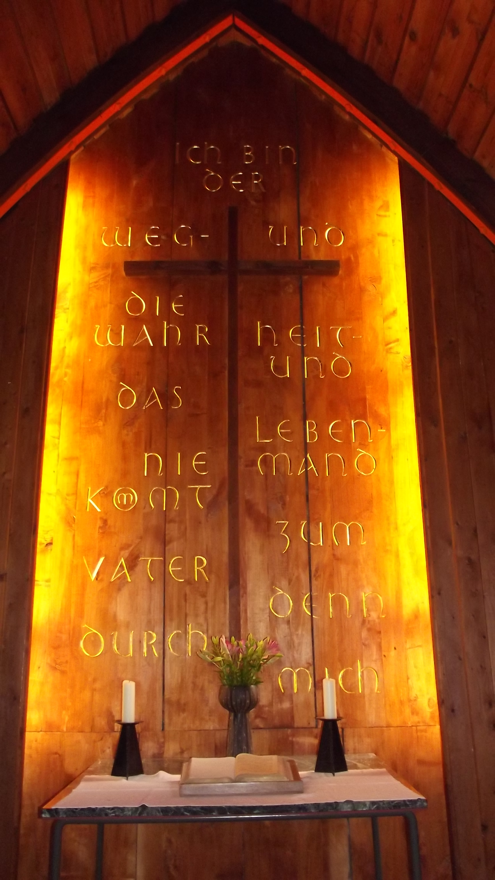 detail of the church in ahrenshoop